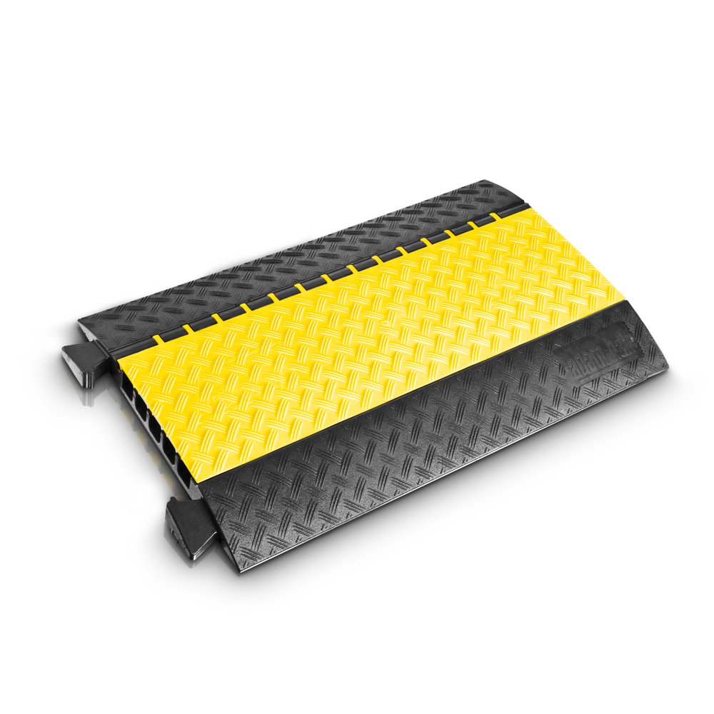 Cable Crossover